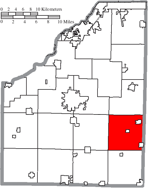 Map of the municipal and township boundaries of Wood County, Ohio, United States, as of the 2000 census, with the location of Montgomery Township highlighted. Township borders are shown only in unincorporated areas in order to differentiate incorporated and unincorporated areas more clearly.